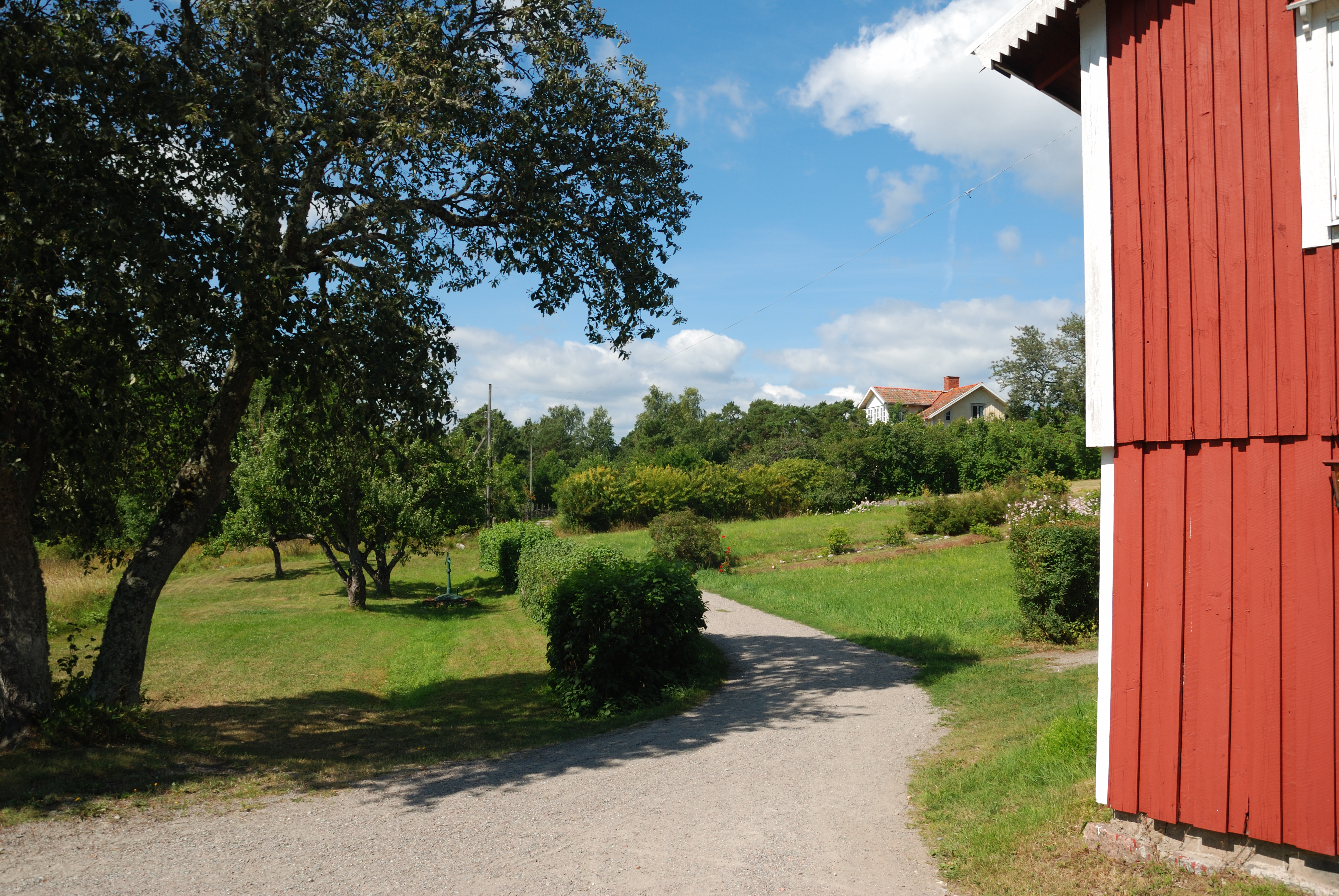 Brottö.